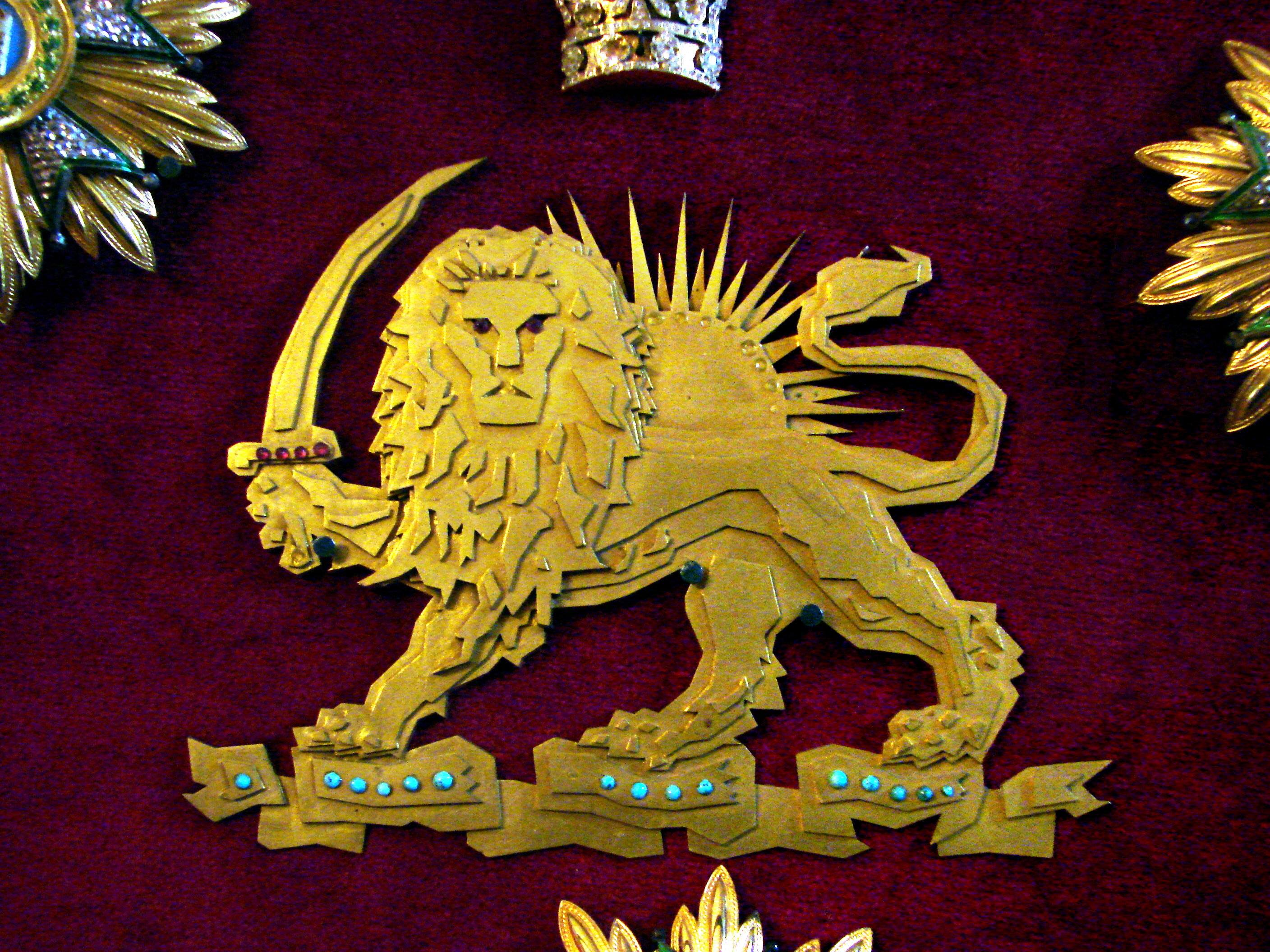 Shir o Khorshid, The Lion and Sun in the Sadabad Palace, Tehran